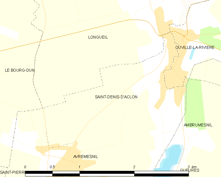 Map of French municipality Saint-Denis-d'Aclon